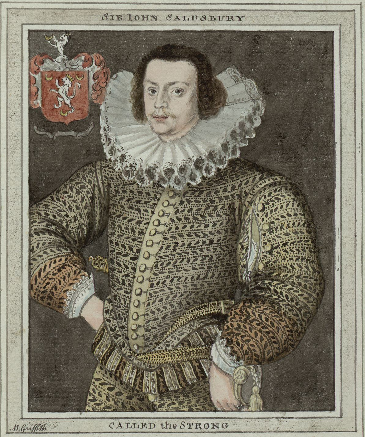 An image from a set of 8 extra-illustrated volumes of A tour in Wales by Thomas Pennant (1726-1798) that chronicle the three journeys he made through Wales between 1773 and 1776. These volumes are unique because they were compiled for Pennant's own library at Downing. This edition was produced in 1781. The volumes include a number of original drawings by Moses Griffiths, Ingleby and other well known artists of the period. Thomas Pennant (1726-1798)